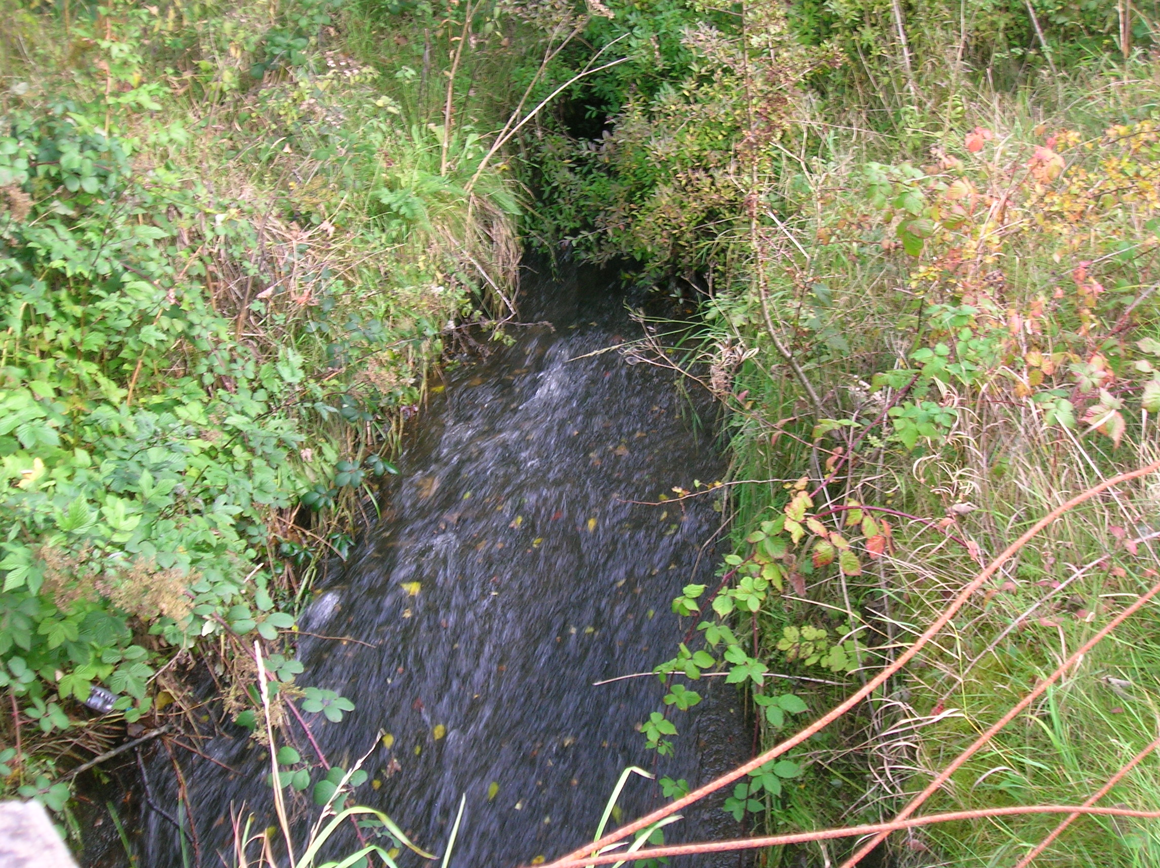 The Threadmill Burn near the old Tollhouse, near Goldcraigs, Kilwinning, Scotland.